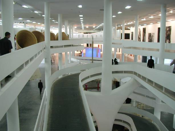 Biennale São Paulo: Pavilhão Ciccillo Matarazzo